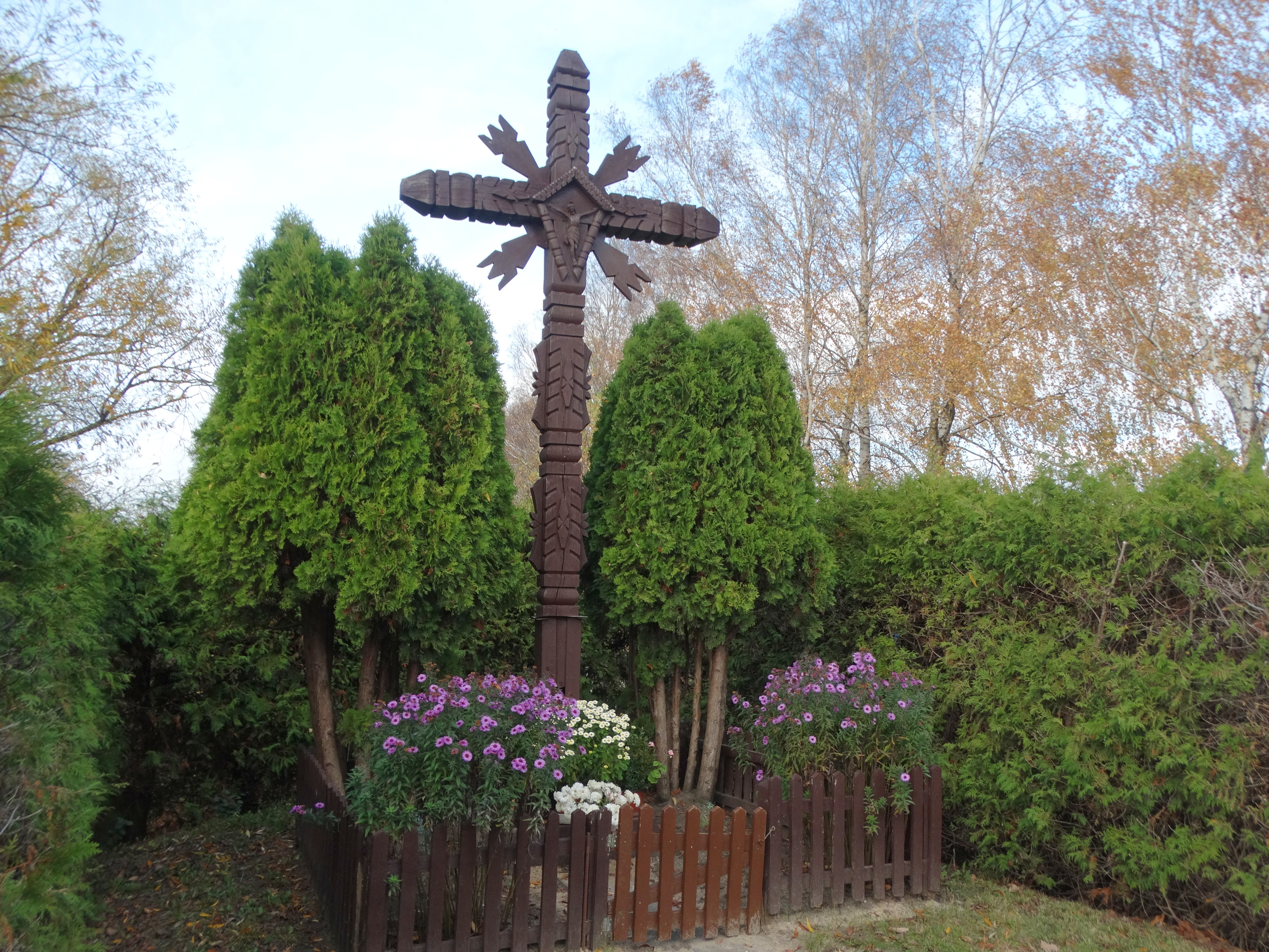 Miklusėnai, wooden cross, Alytus district, Lithuania